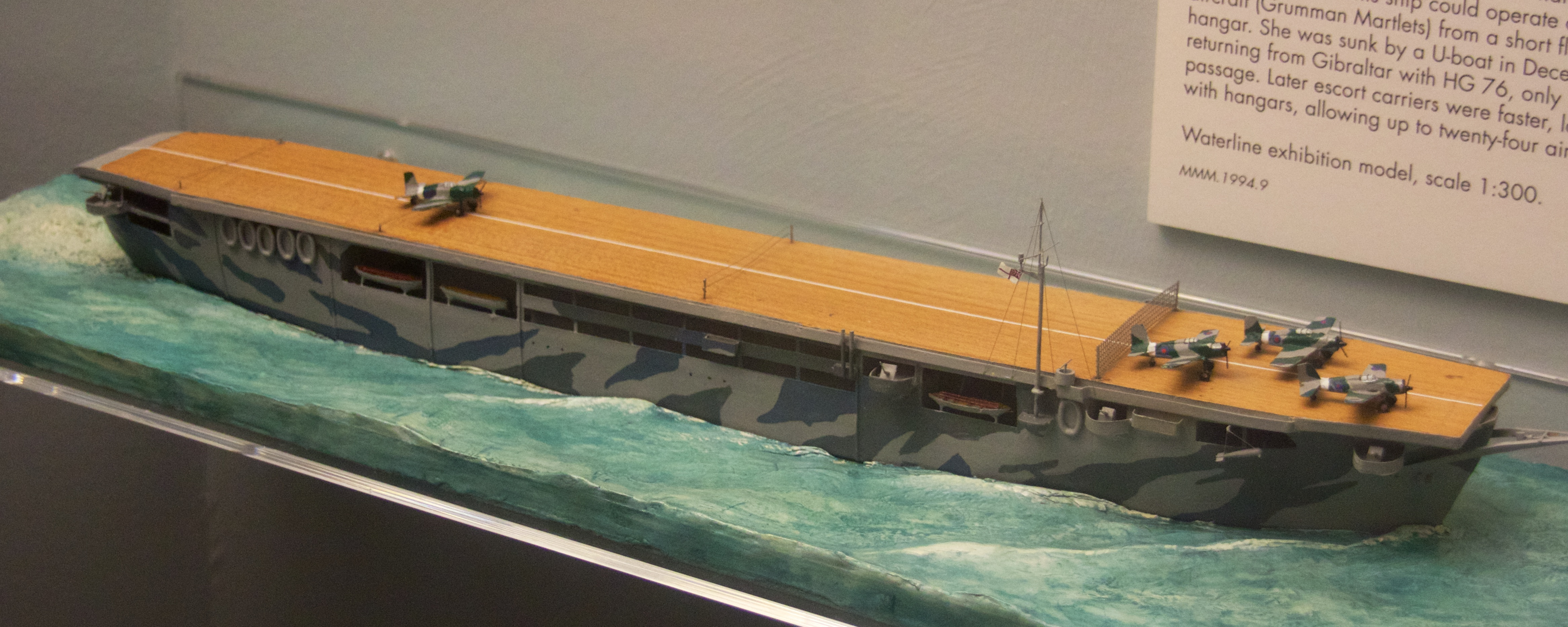 HMS Audacity, 1941. Auxiliary aircraft carrier. Waterline exhibition model, scale 1:300. MMM. 1994.9. On display at the Merseyside Maritime Museum.